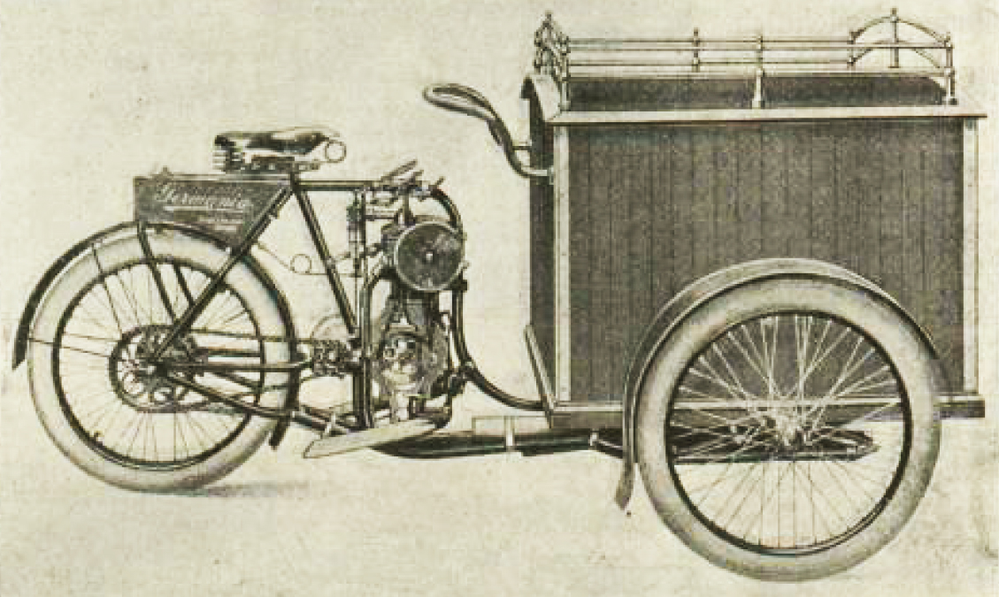 Motor tricycle Germania from Seidel & Naumann (before 1908)